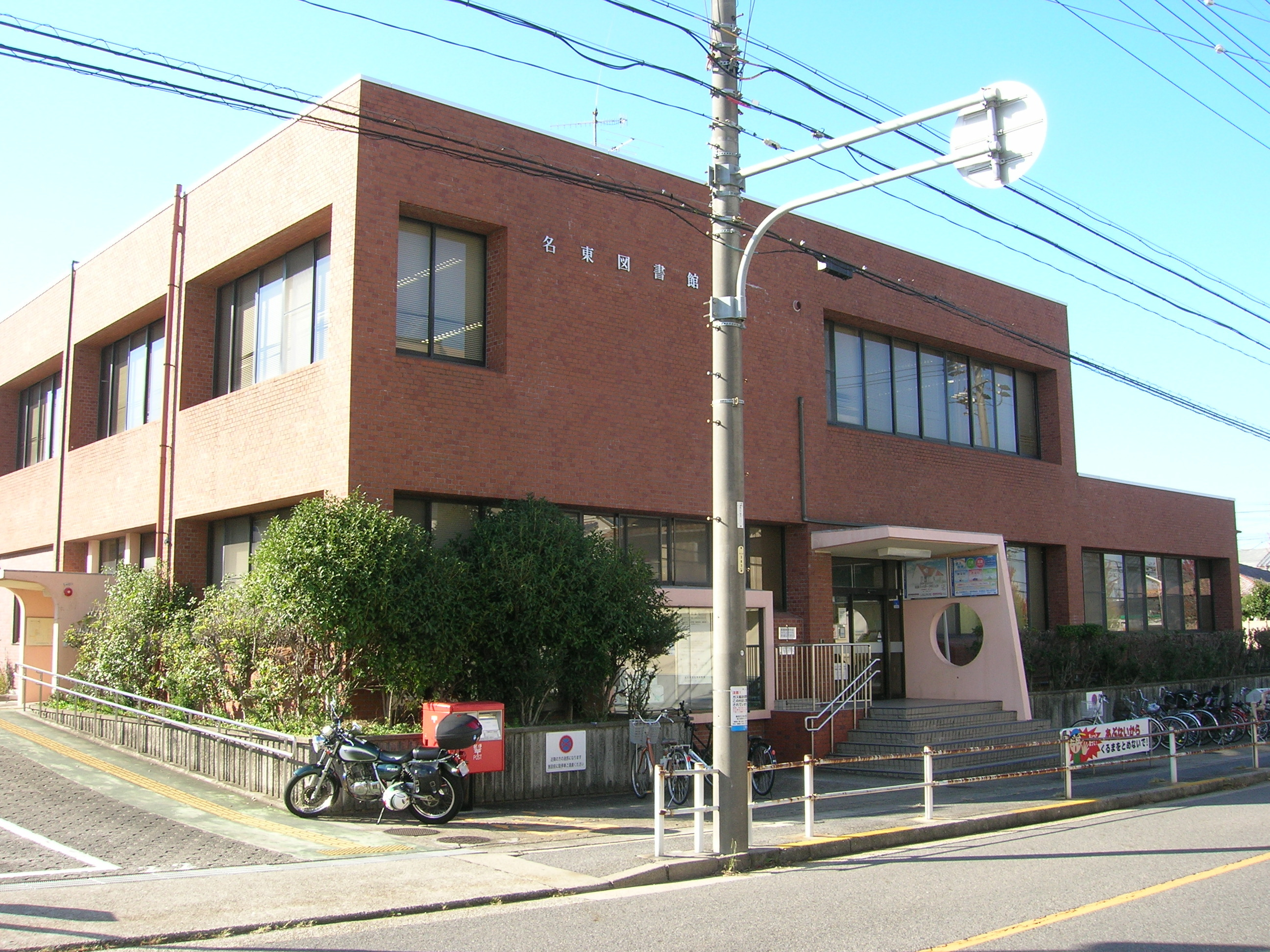 Nagoya City Meitō library. Loc: Meitō-ku, Nagoya city, Aichi Prefecture, Japan. 名古屋市名東図書館 撮影場所 愛知県名古屋市名東区